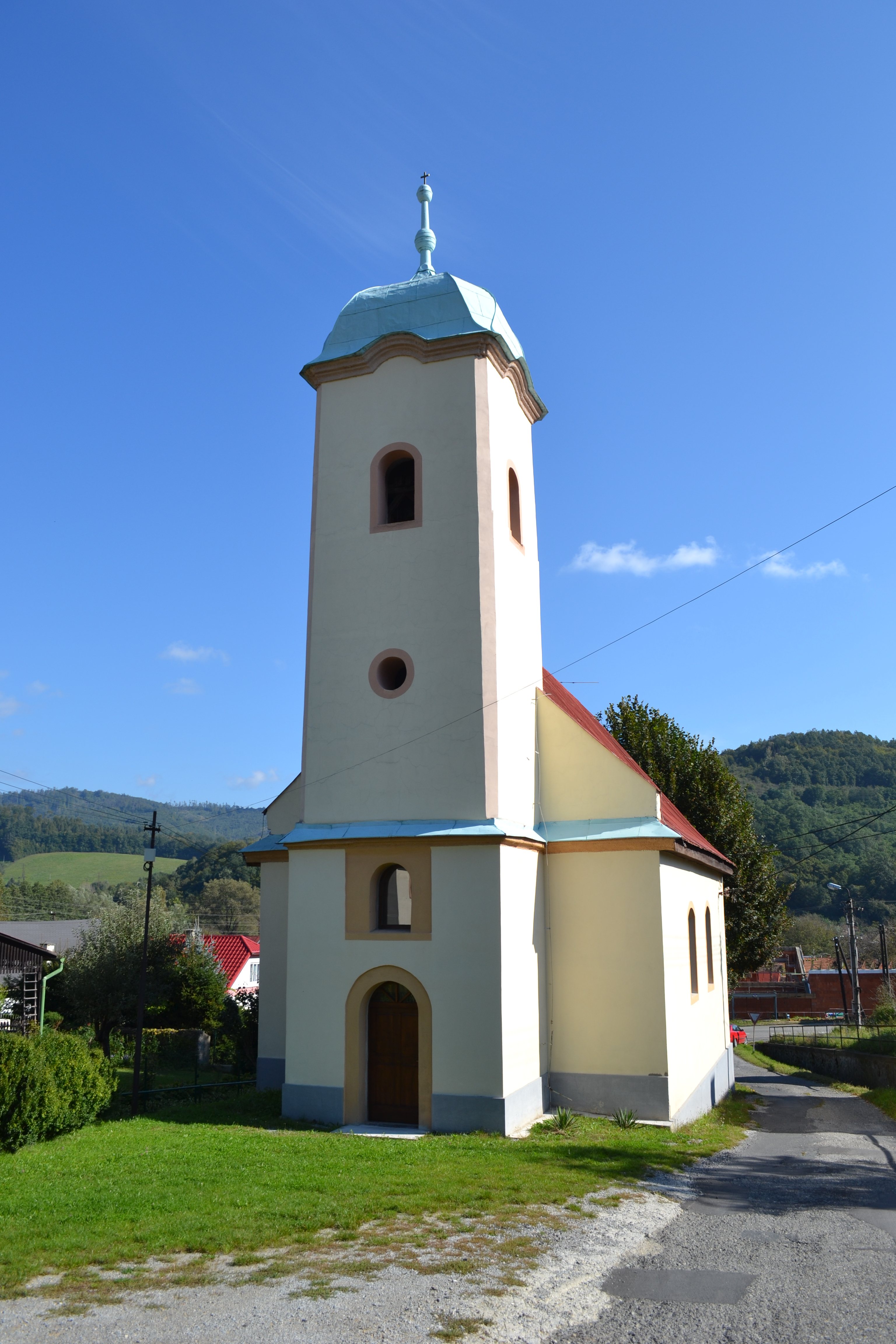 Lutheran church in the village LikierSlovenčina: Evanjelický kostol v Likieri (mestská časť Hnúšte)